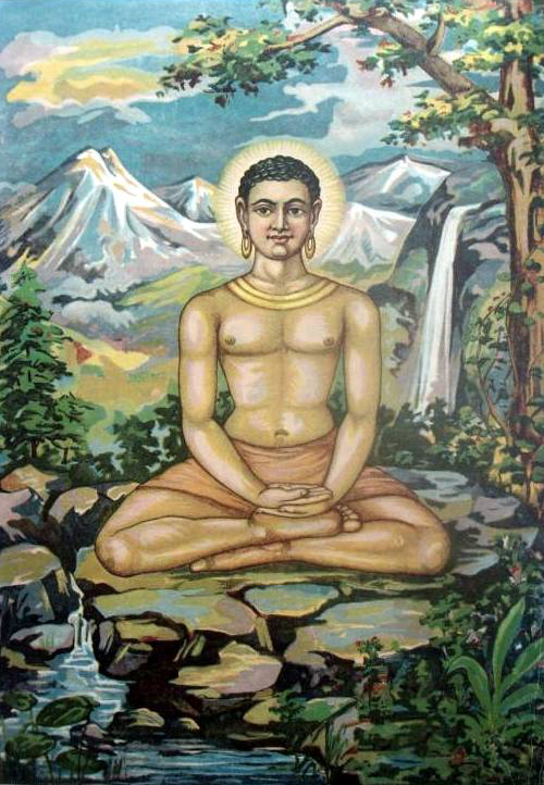 Vintage Print Mahatma Buddha litho Ravi Varma / Verma Press#Pr1 Vintage Print Mahatma Buddha oleograph/litho Ravi Varma Press Size approx. 13.5x9.6 conditions shown in images, minor ignorable faults nice4 for framing and collection. Circa late1890s. #Pr19 This is original vintage print. This is not moderan reproduction original oleograph/lithograph printed at Ravi Varma Press & other contemporary presses are old & gone through vagaries of time. They may be slightly damaged & in soiled condition. This does not anyway diminish the beauty of oleograph.